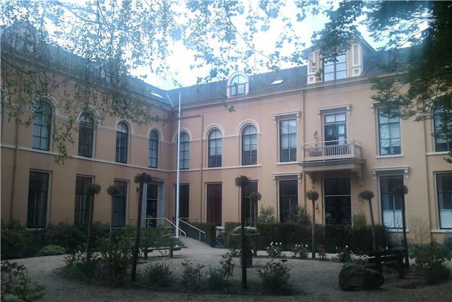 Kuiperstraat_5-39_Deventer, The Netherlands